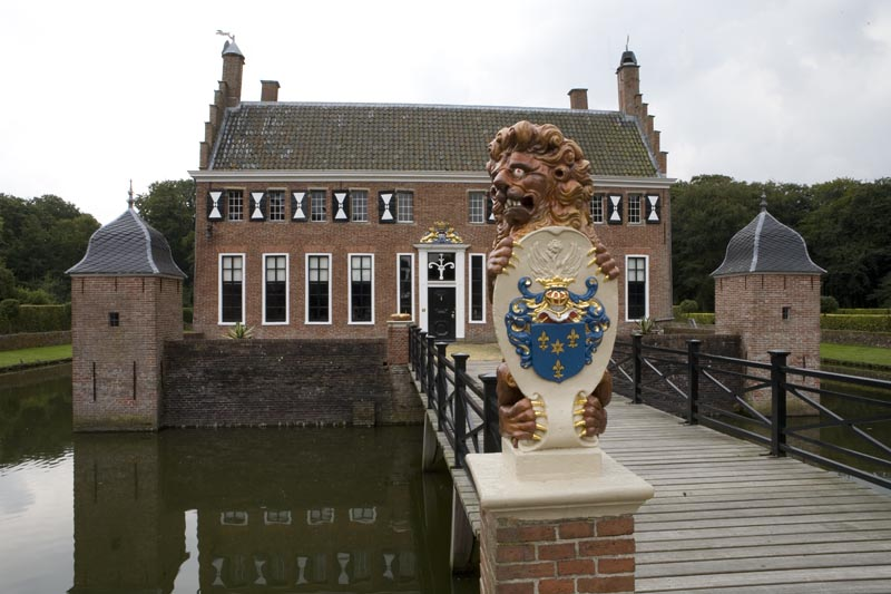 Castle Menkemaborg front.